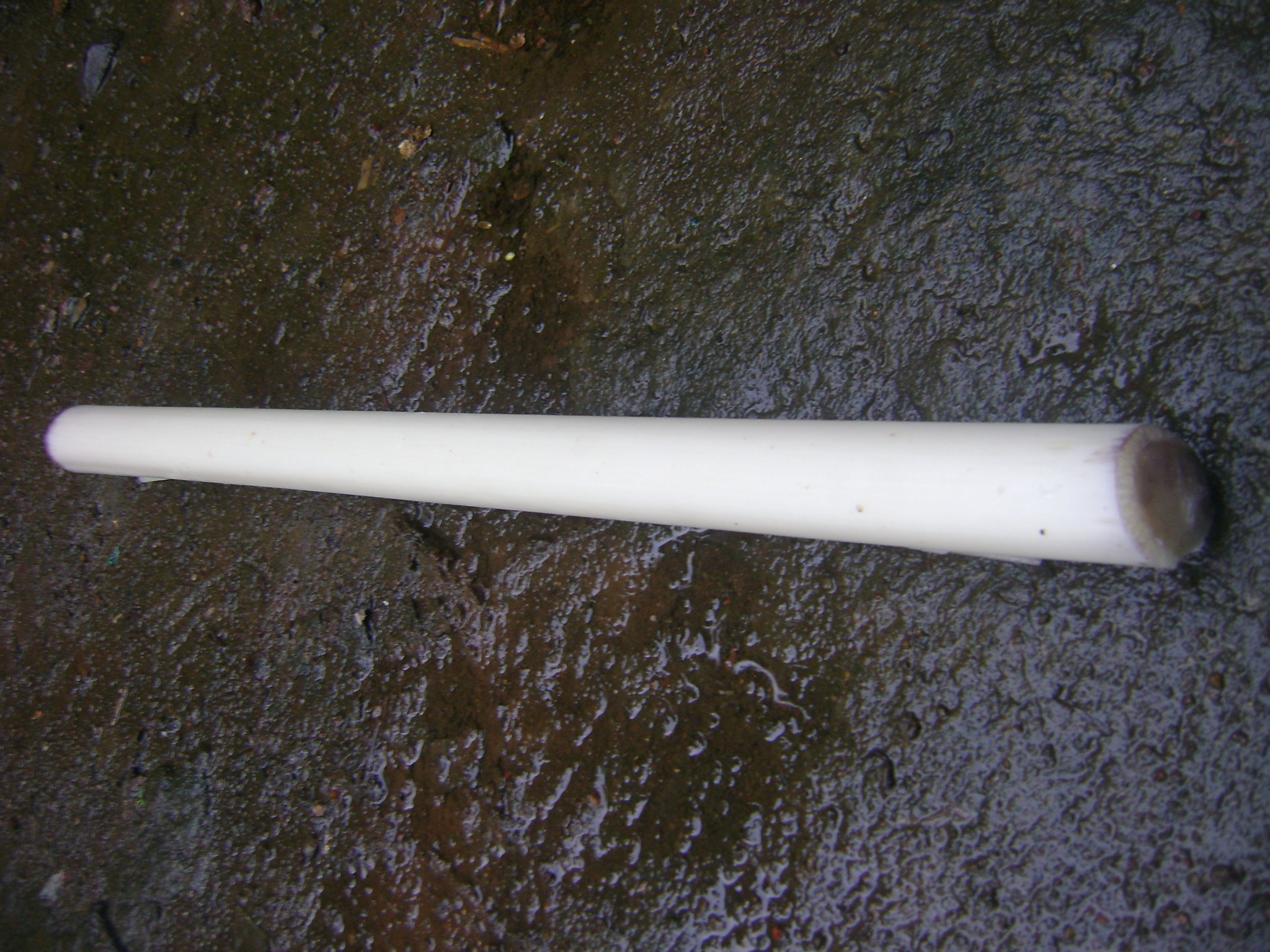 stem of a banana tree